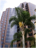 11766 Wilshire Boulevard is an office building home to the Consulates General of Azerbaijan, Israel, Lithuania, and Romania